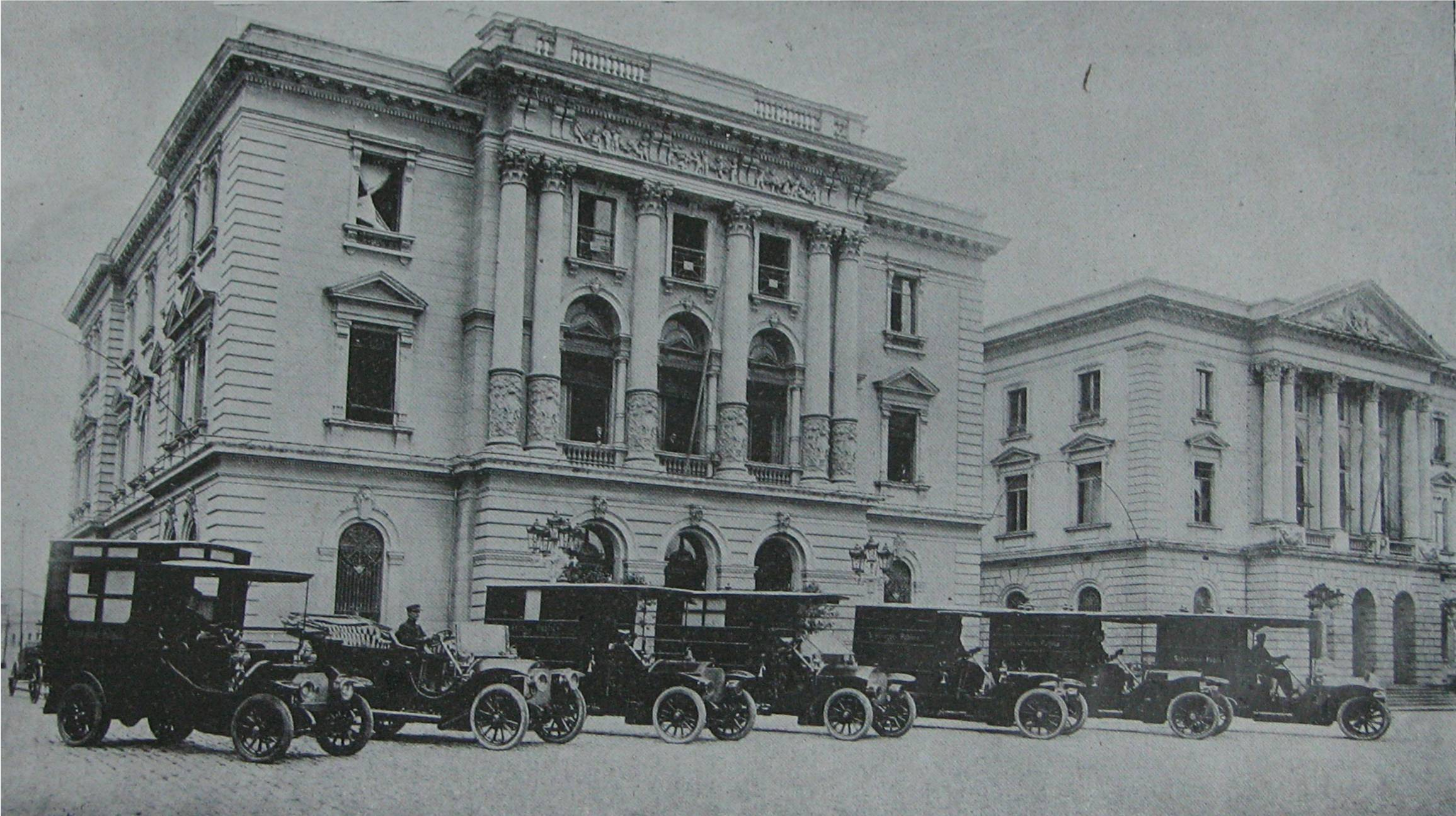 Police cars - 1910 - São Paulo Civil Police - Brazil